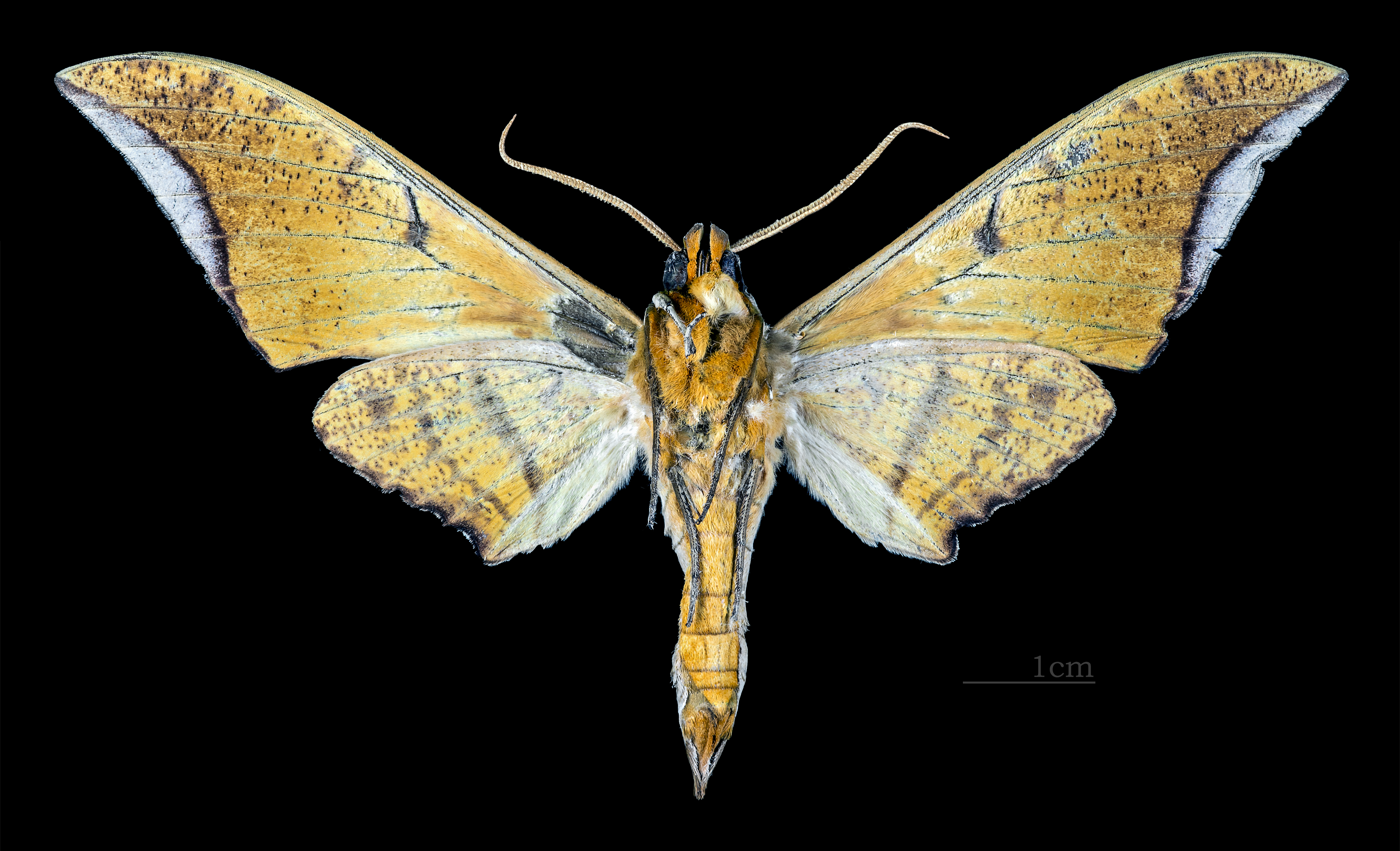 Ambulyx wilemani - △ Ventral side Collection of the Mathematician Laurent Schwartz